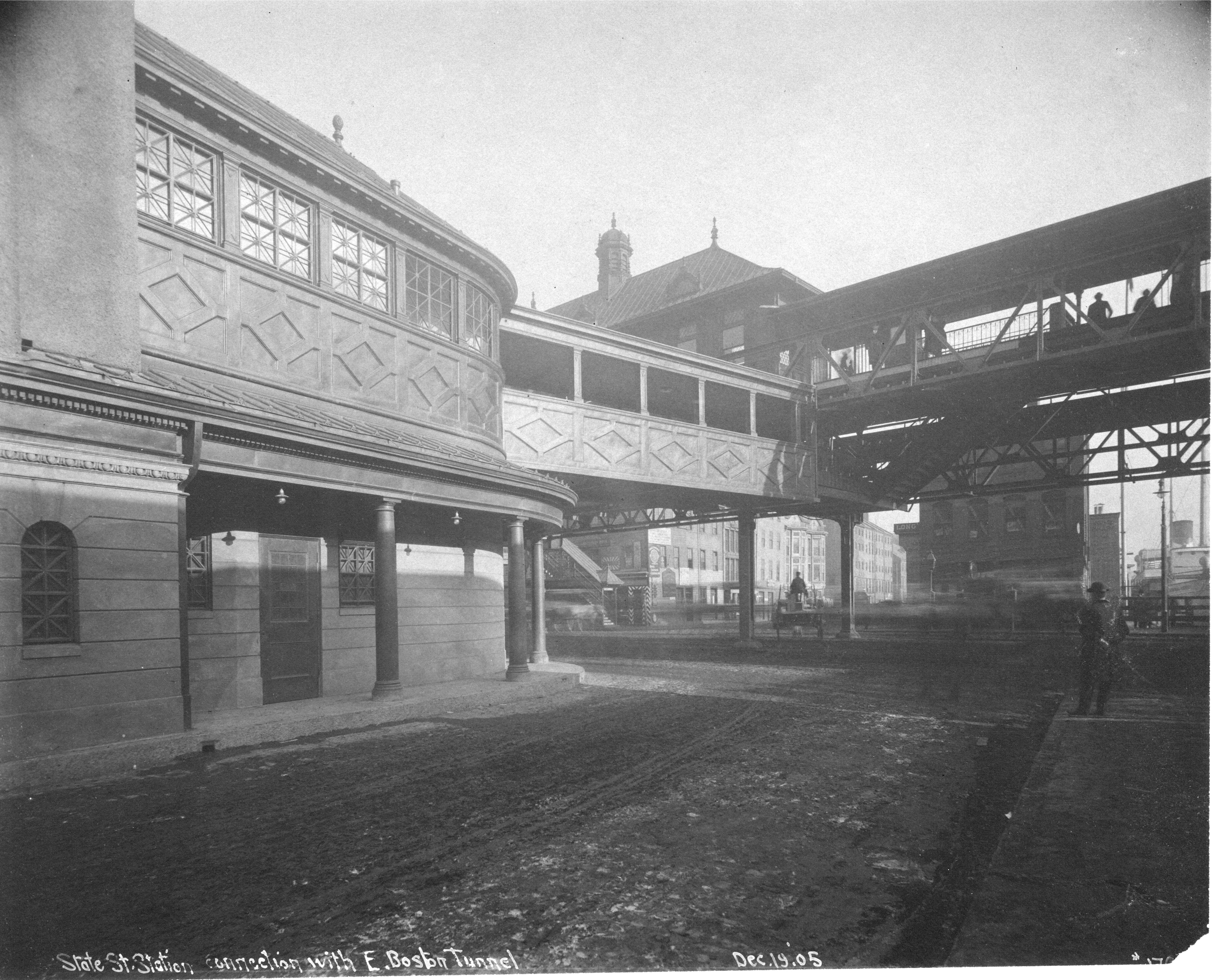 Footbridge between the Atlantic Avenue station headhouse (left) and State Street station (right) in December 1905, five months before Atlantic Avenue station opened